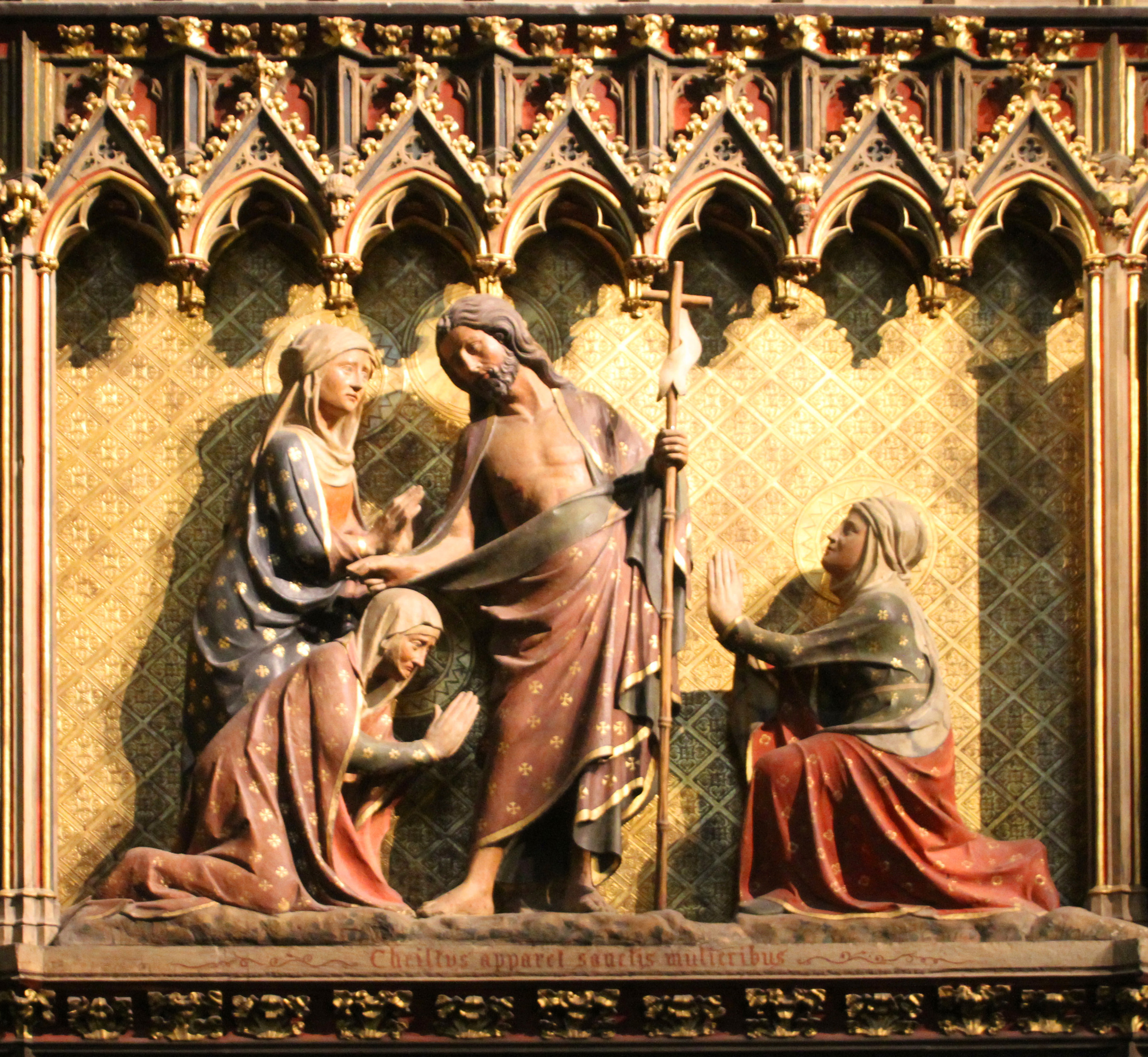 South choir screen of Notre-Dame de Paris